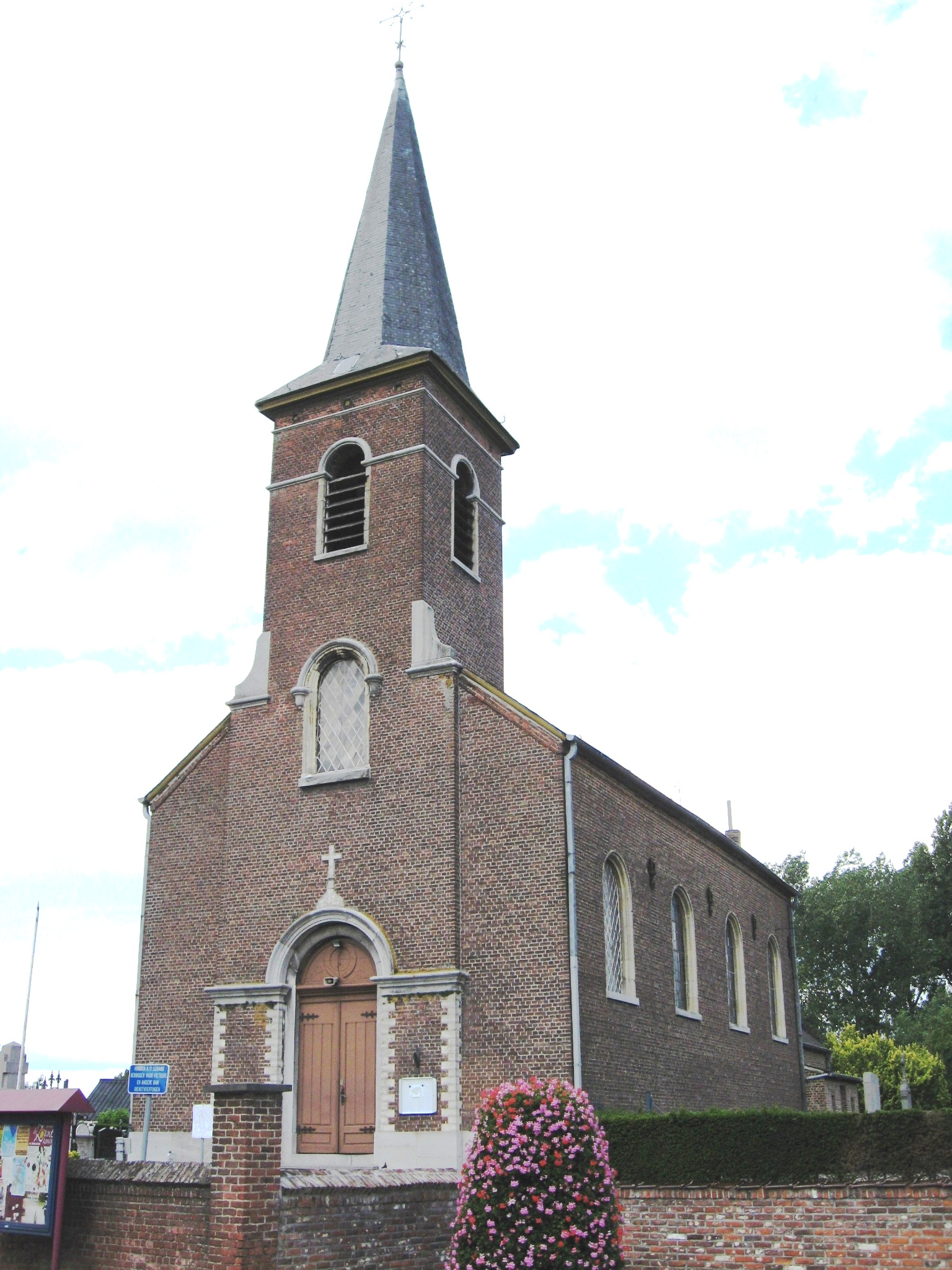 Church of Saint Andrew in Runkelen, Sint-Truiden, Limburg, Belgium